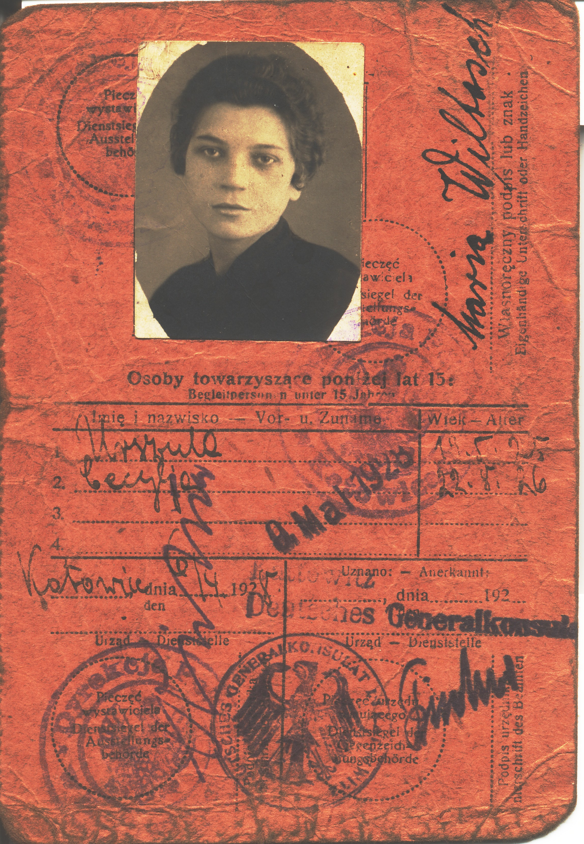 Circulate card, Upper Silesia 1928